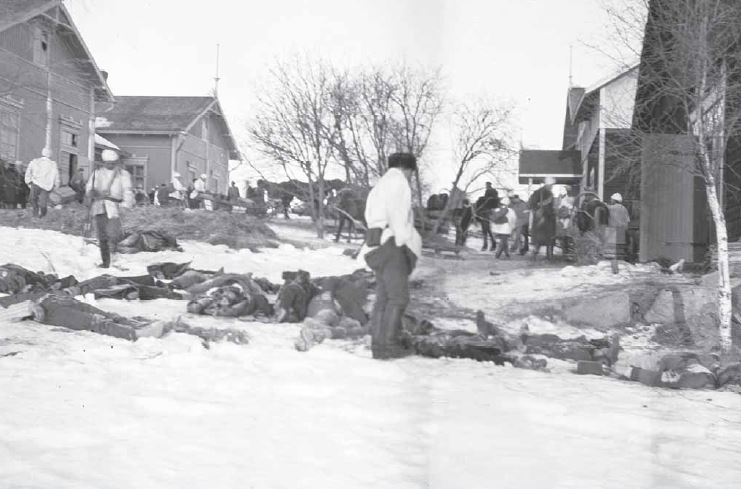 1918 Finnish Civil War: Executed Reds in the Vilkkilä village after the Battle of Länkipohja.